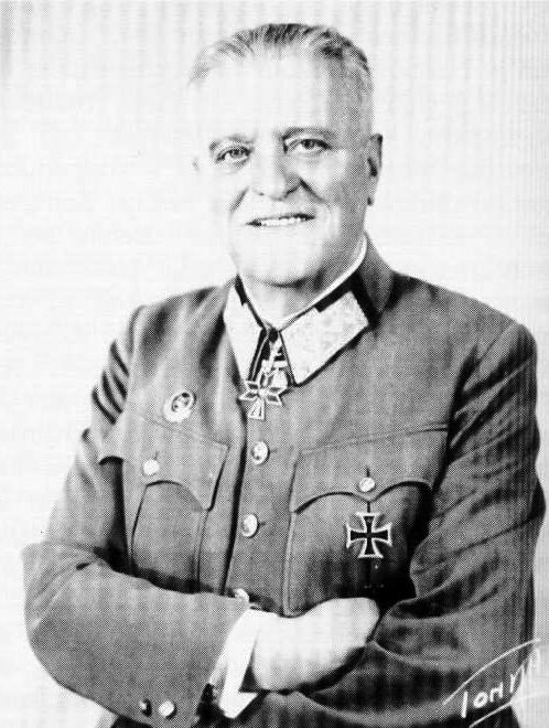 Croatian field marshal Slavko Kvaternik